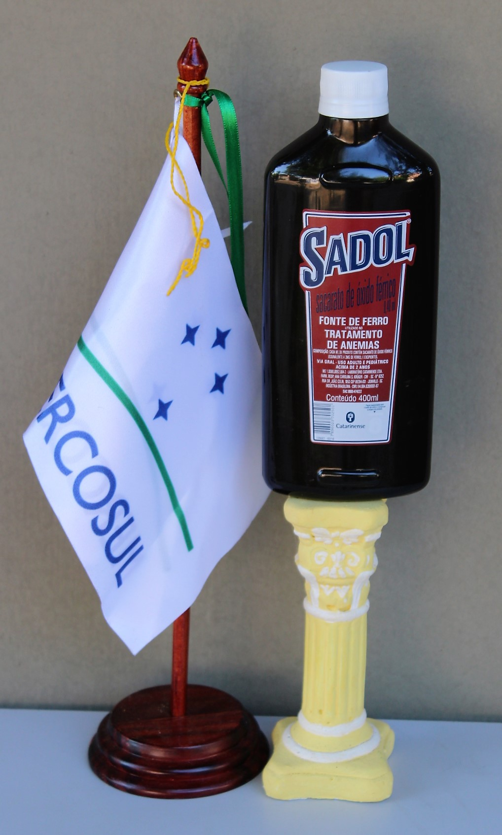 Flag of Mercosur and SADOL.